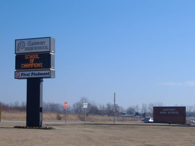 Taken 2-16-2006 outside Gaffney High School.